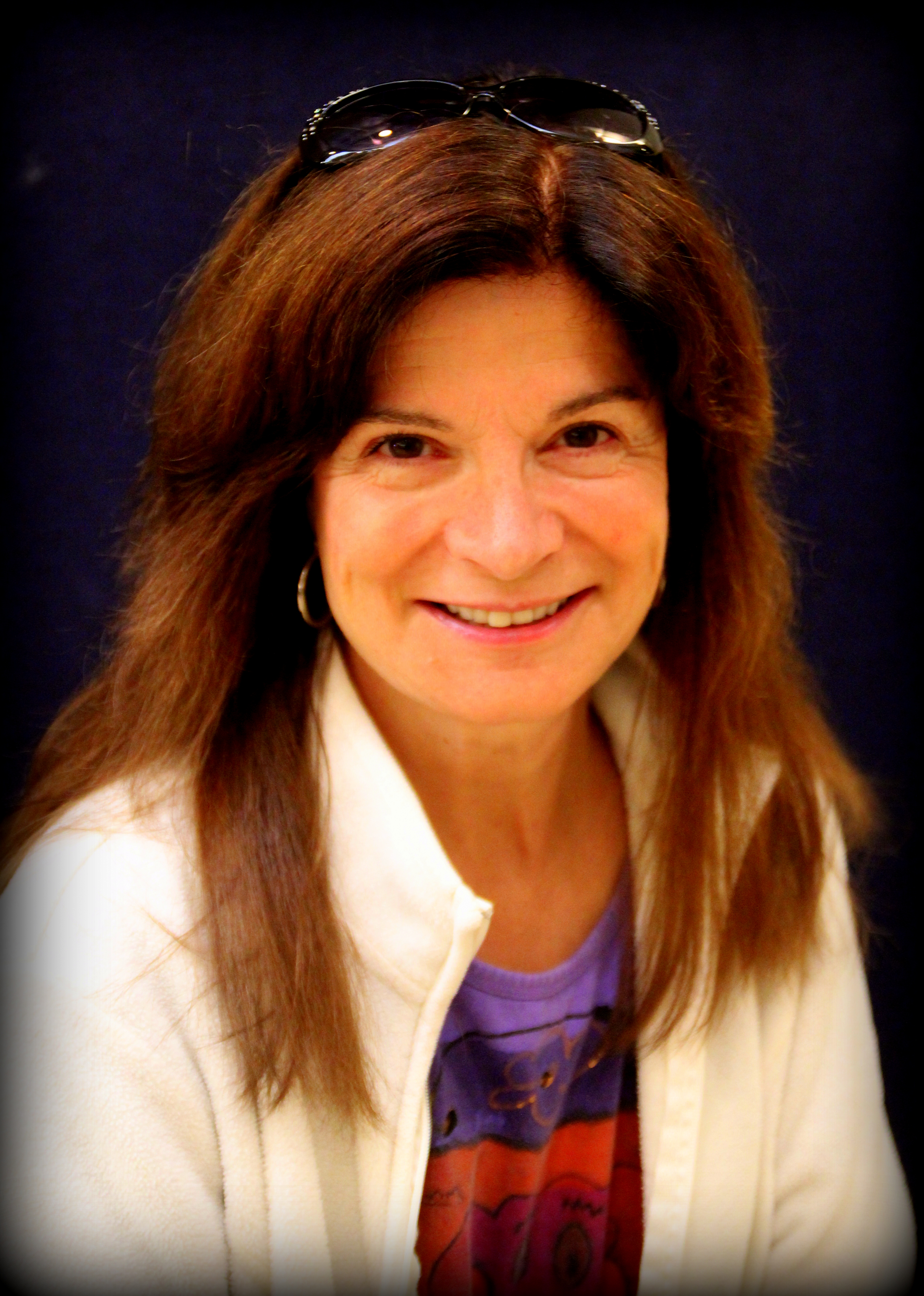 Carolyn Porco at SkeptiCalcon 2016